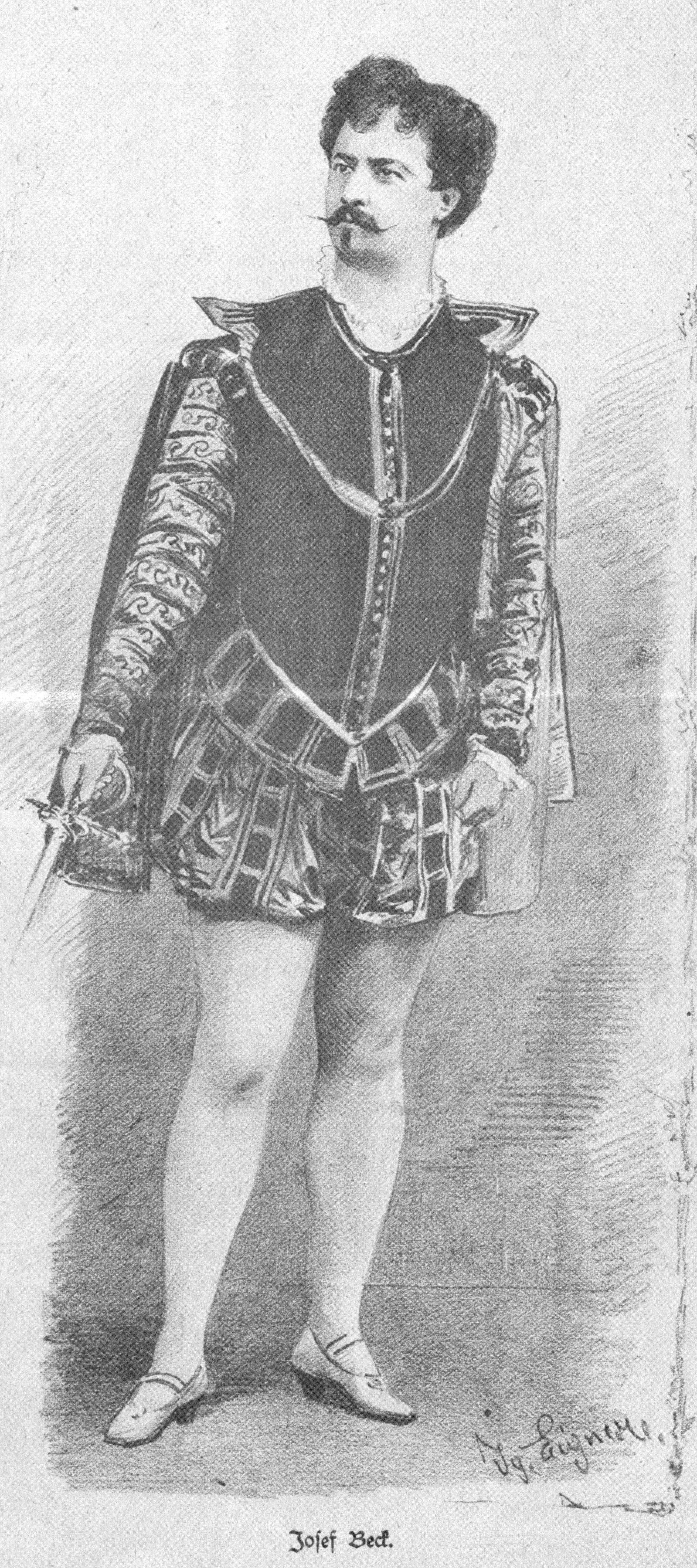 Portrait of Josef Beck (1848-1903), Austrian opera singer.